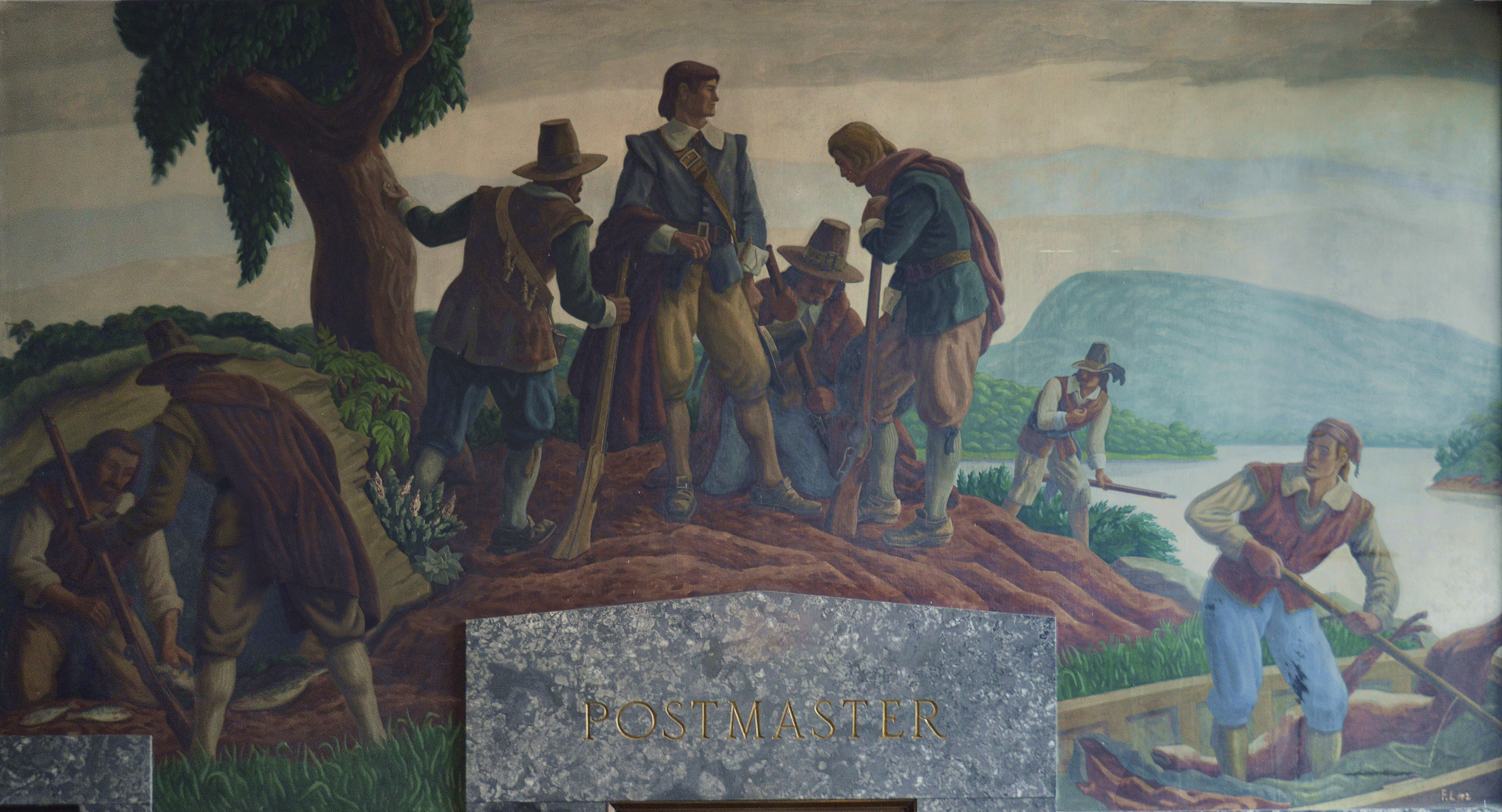 Captain Alezur Holyoke’s Exploring Party on the Connecticut River by Ross E. Moffett; inexplicably Alezur is often spelled "Alezue" despite the fact that the historic figure portrayed is Elizur Holyoke. This oil mural is visible at the west wall of the Holyoke Post Office above the Postmaster's door. It depicts a scene of Elizur Holyoke and his team surveying the land to the south of Mount Tom which can be seen in the background. To the left are two colonists looking over their day's catch of American shad which remain abundant in the Connecticut River at Hadley Falls to this day. To the right a man in a flat-bottom boat can be seen with a deer, of the day's hunt.